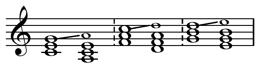 The tonic, subdominant, and dominant chords, in root position, each followed by its parallel. The parallel is formed by raising the fifth a whole tone. Created by Hyacinth (talk) 07:36, 6 December 2010 using Sibelius 5.